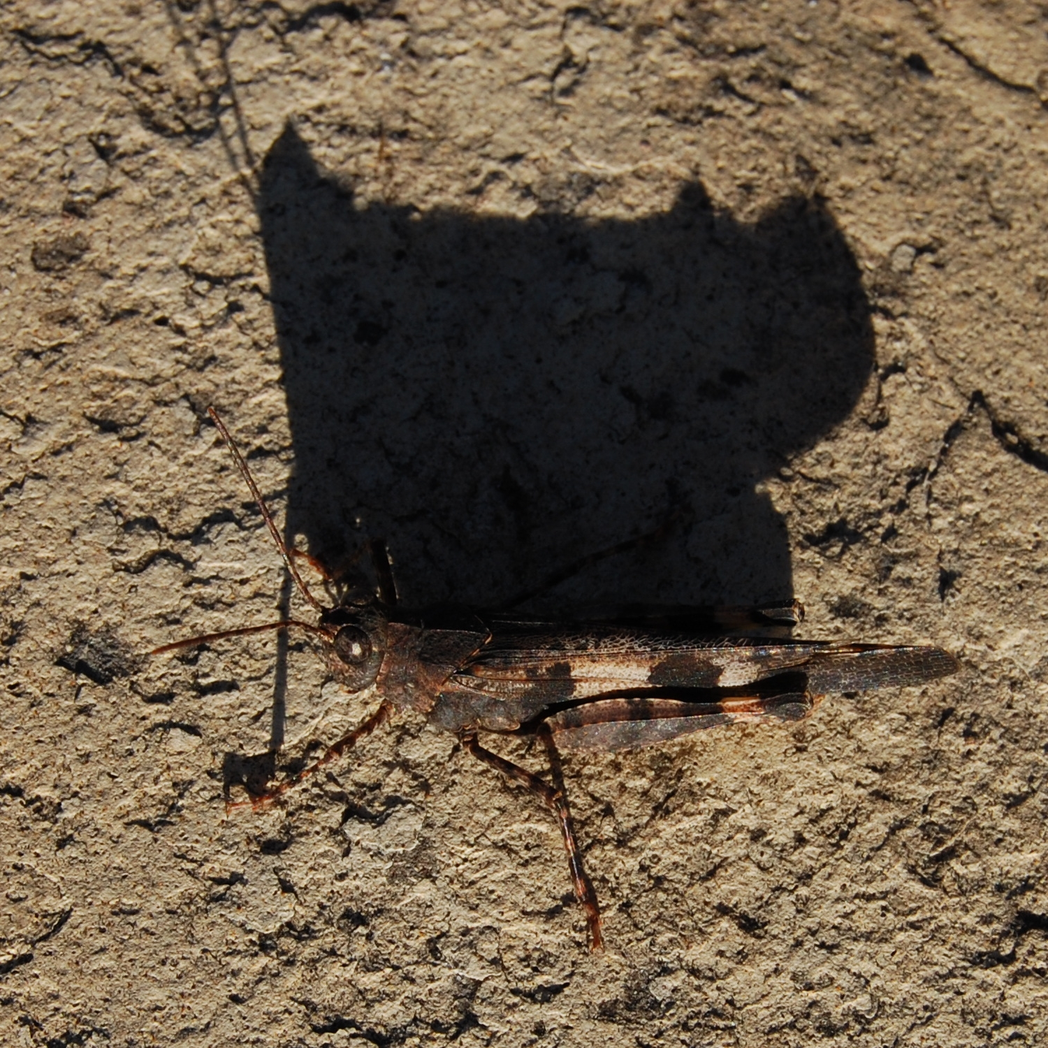 Fontana Grasshopper. Santa Cruz, California, USA.